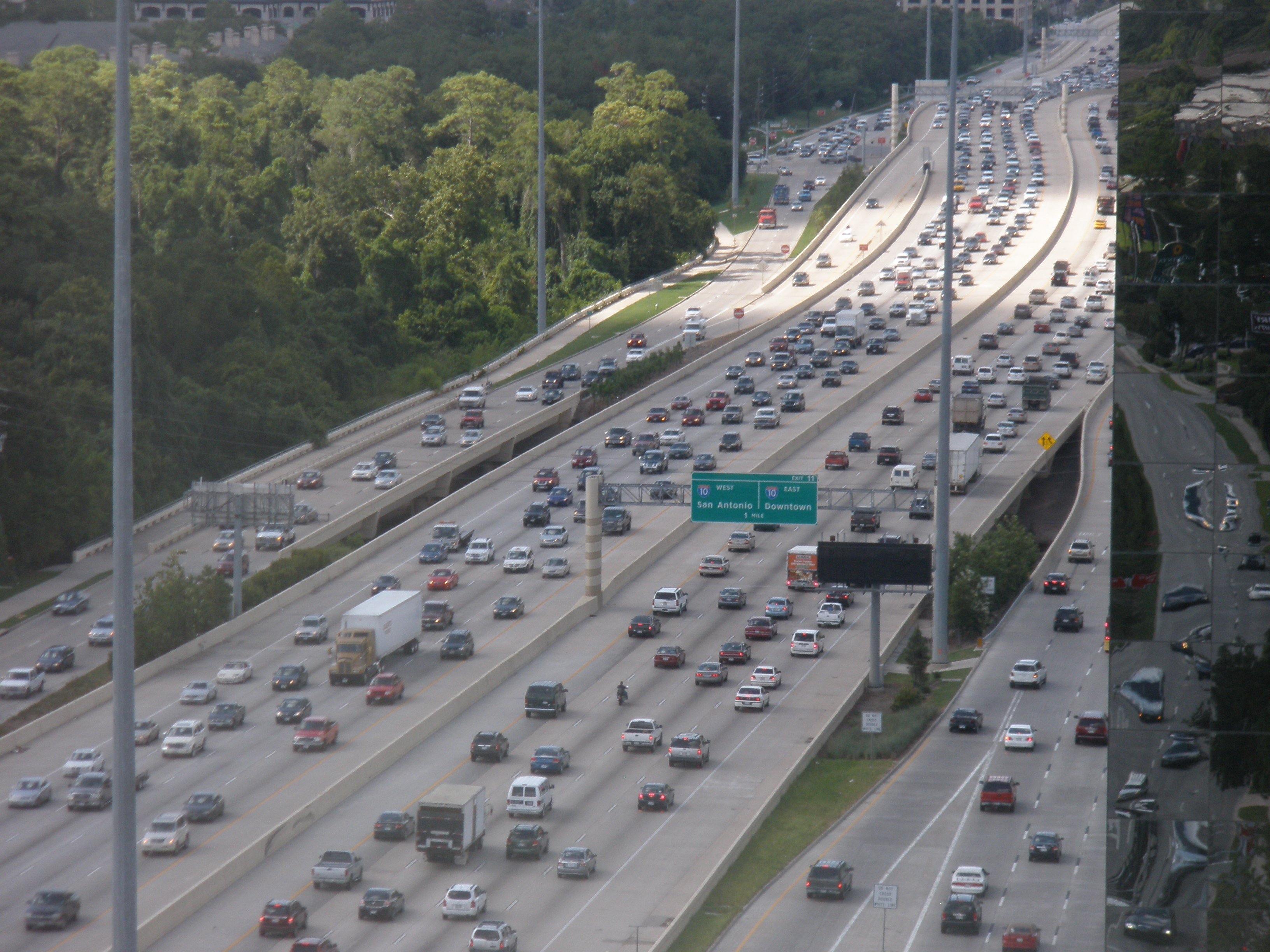 I-610 "West Loop South" just South from IH-10 West. View from the HQ of Cameron International Corporation